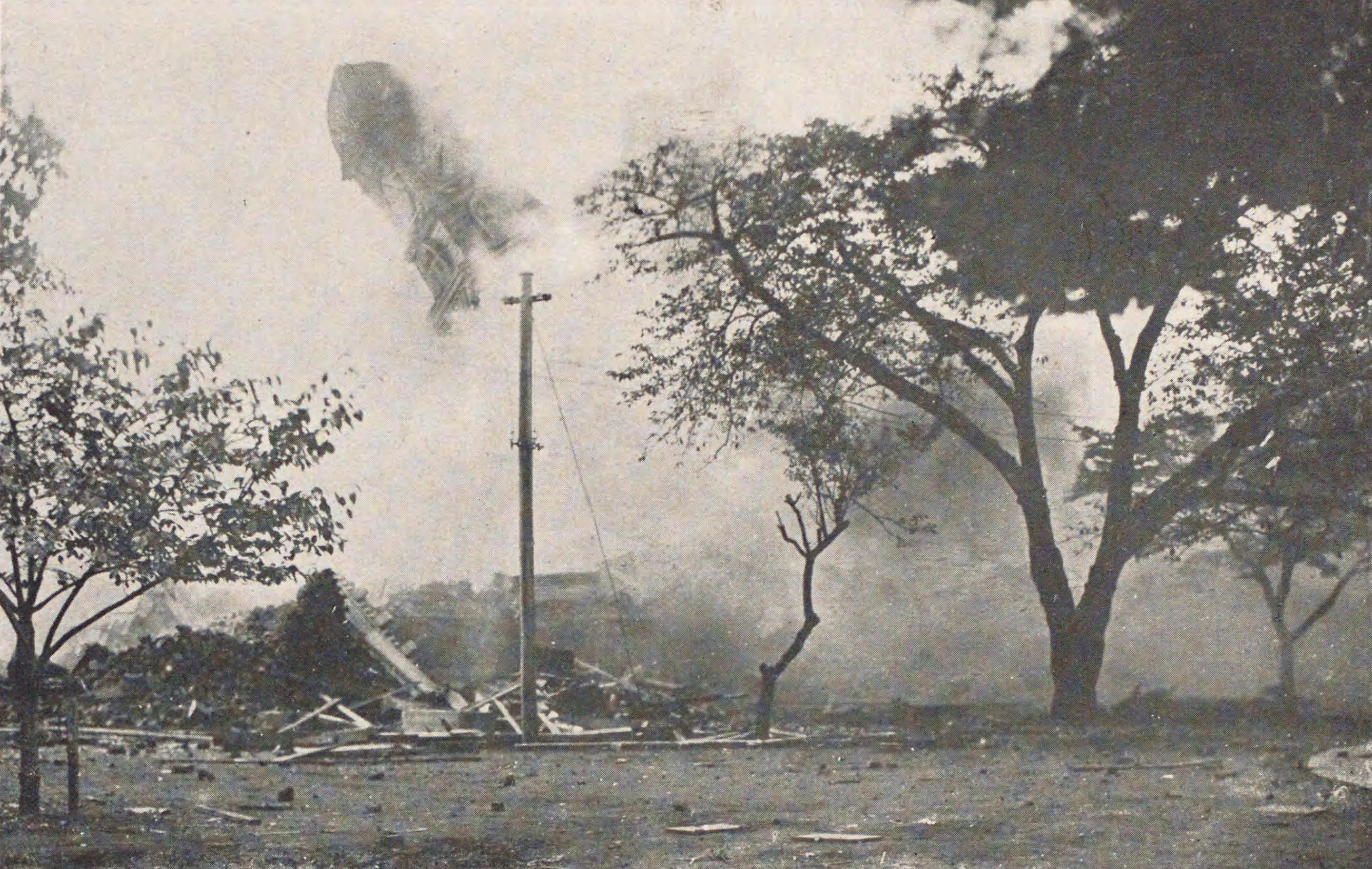 Demolition of the clock tower of First Higher School in 14th October 1923 after Great Kantō earthquake.